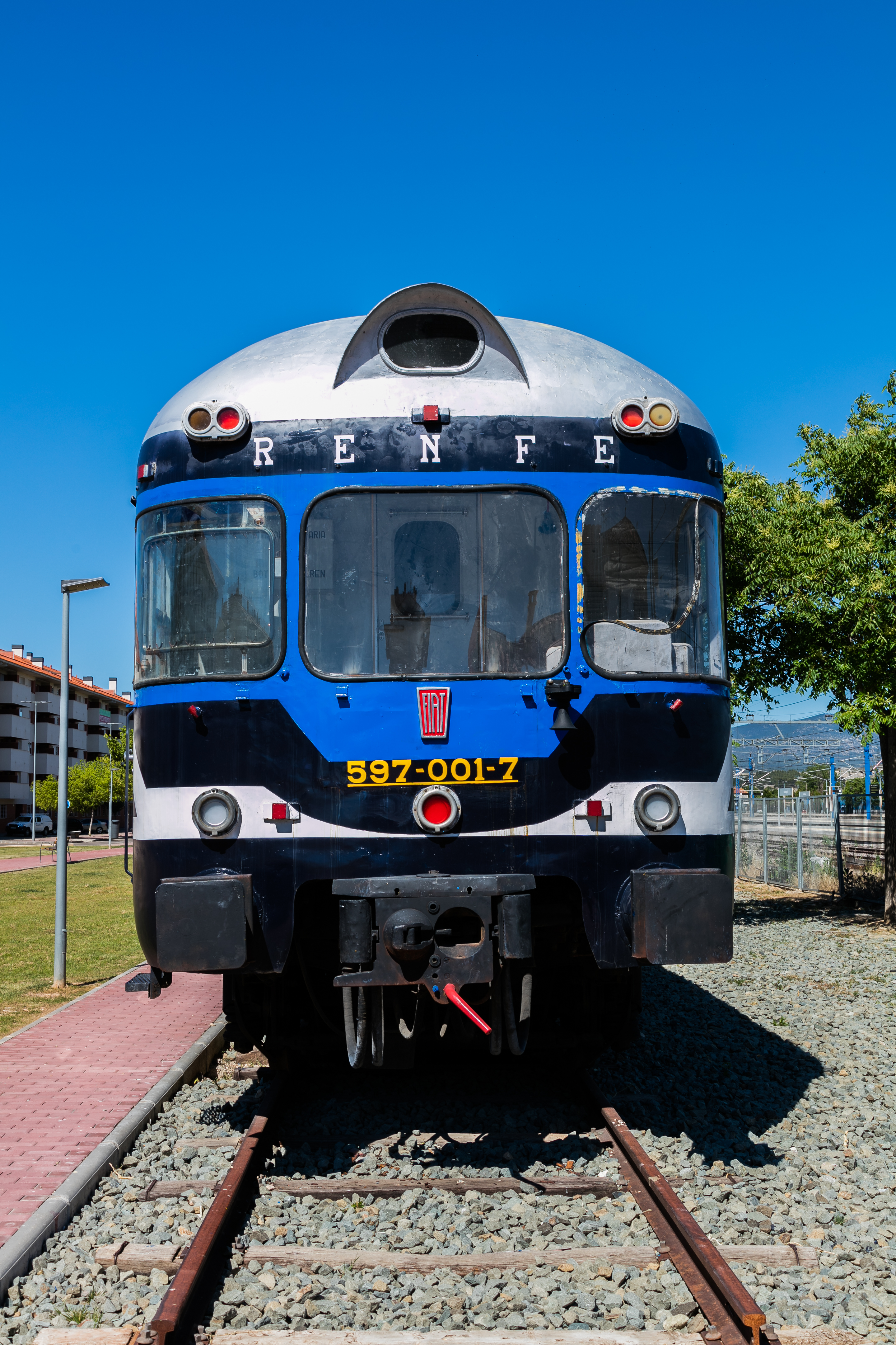 Exhibition TER train, model Fiat TER 9701, Calatayud, Spain